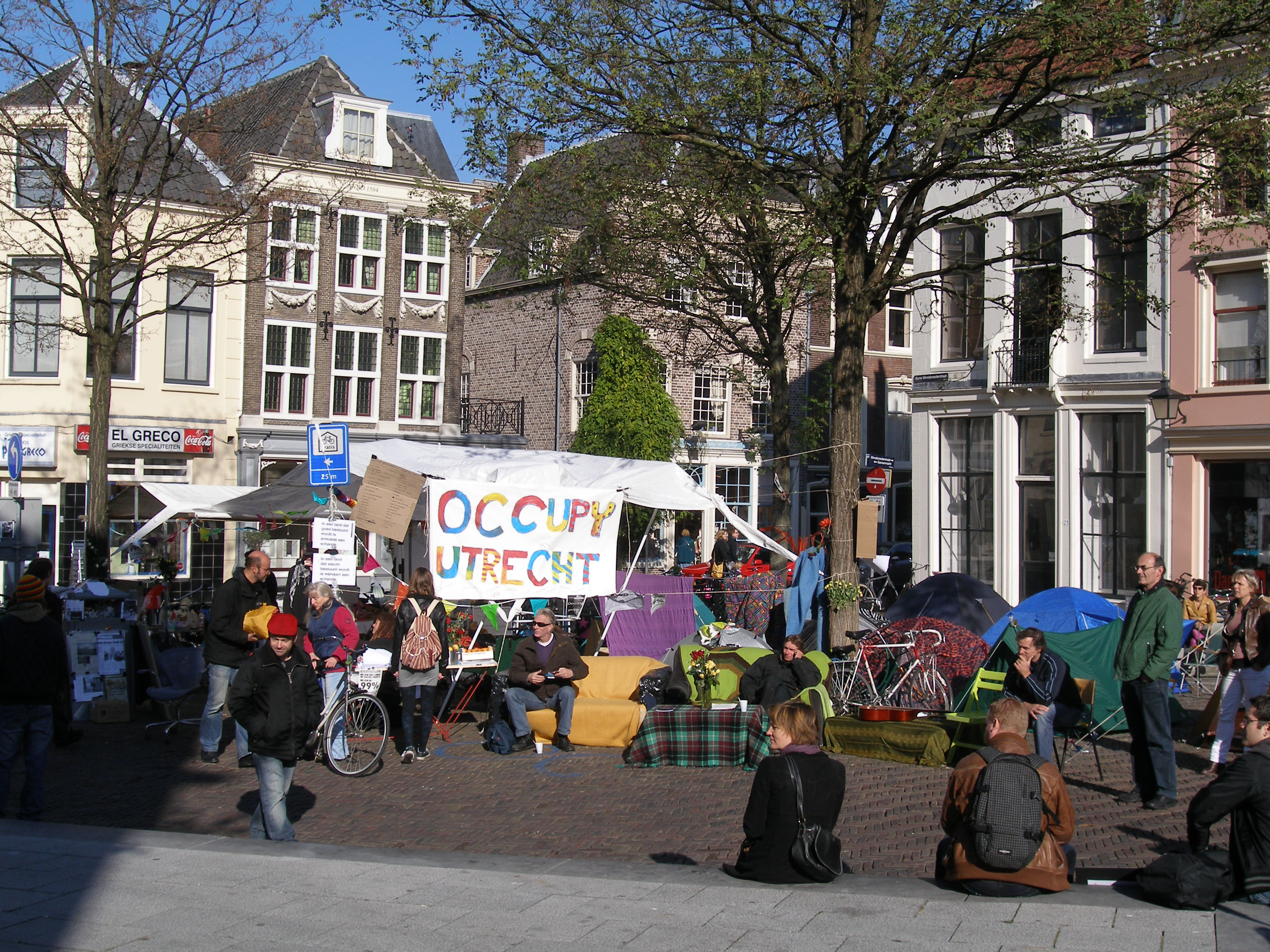 occupy in Utrecht